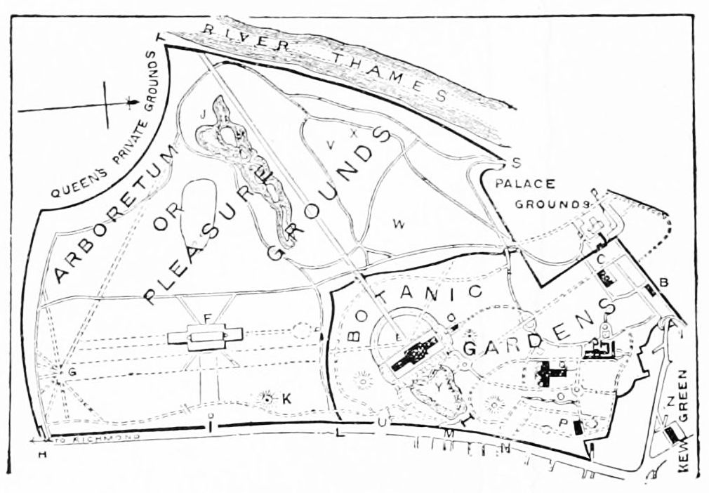 Plan of Kew Gardens